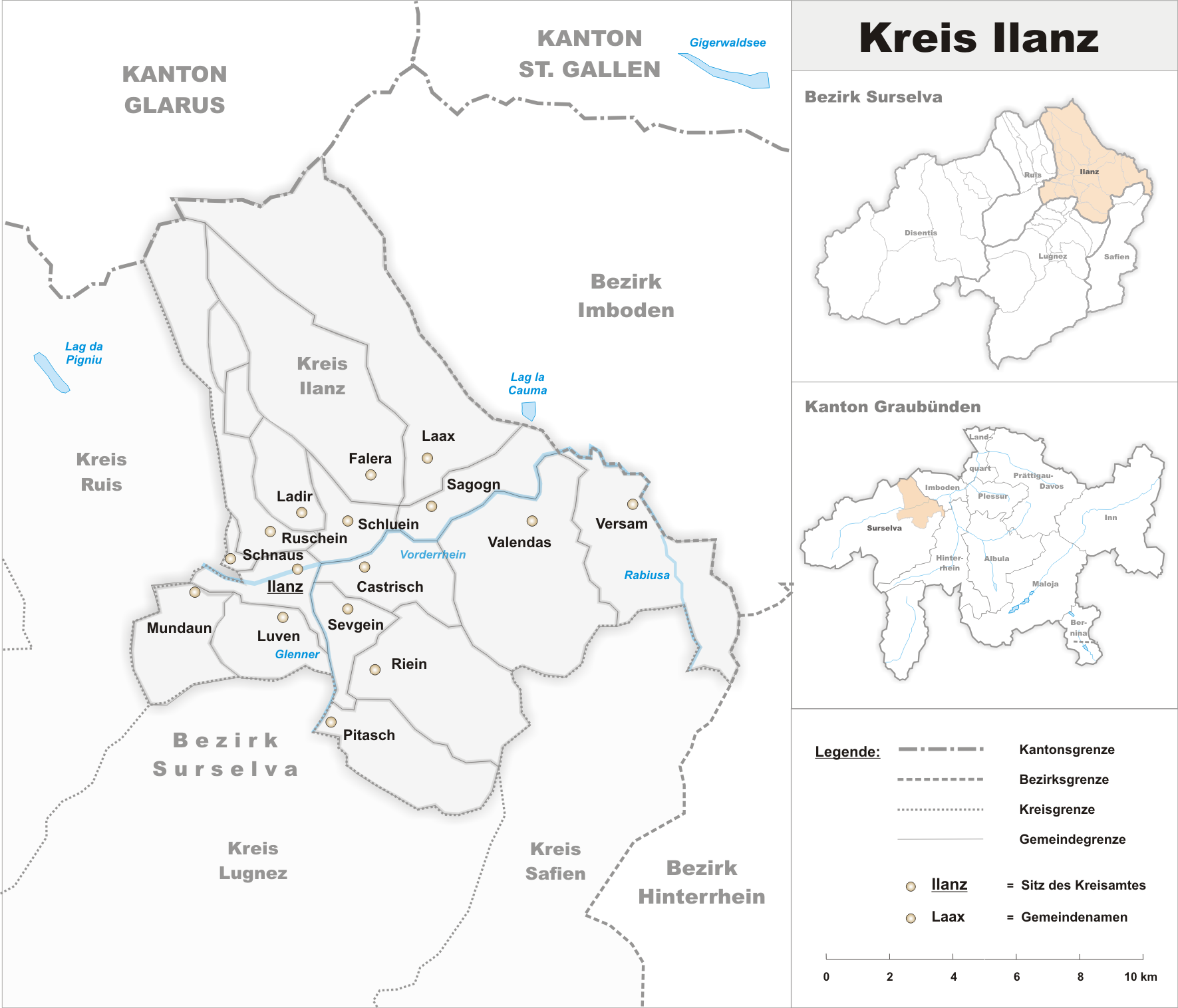 Municipalities in the circle of Ilanz